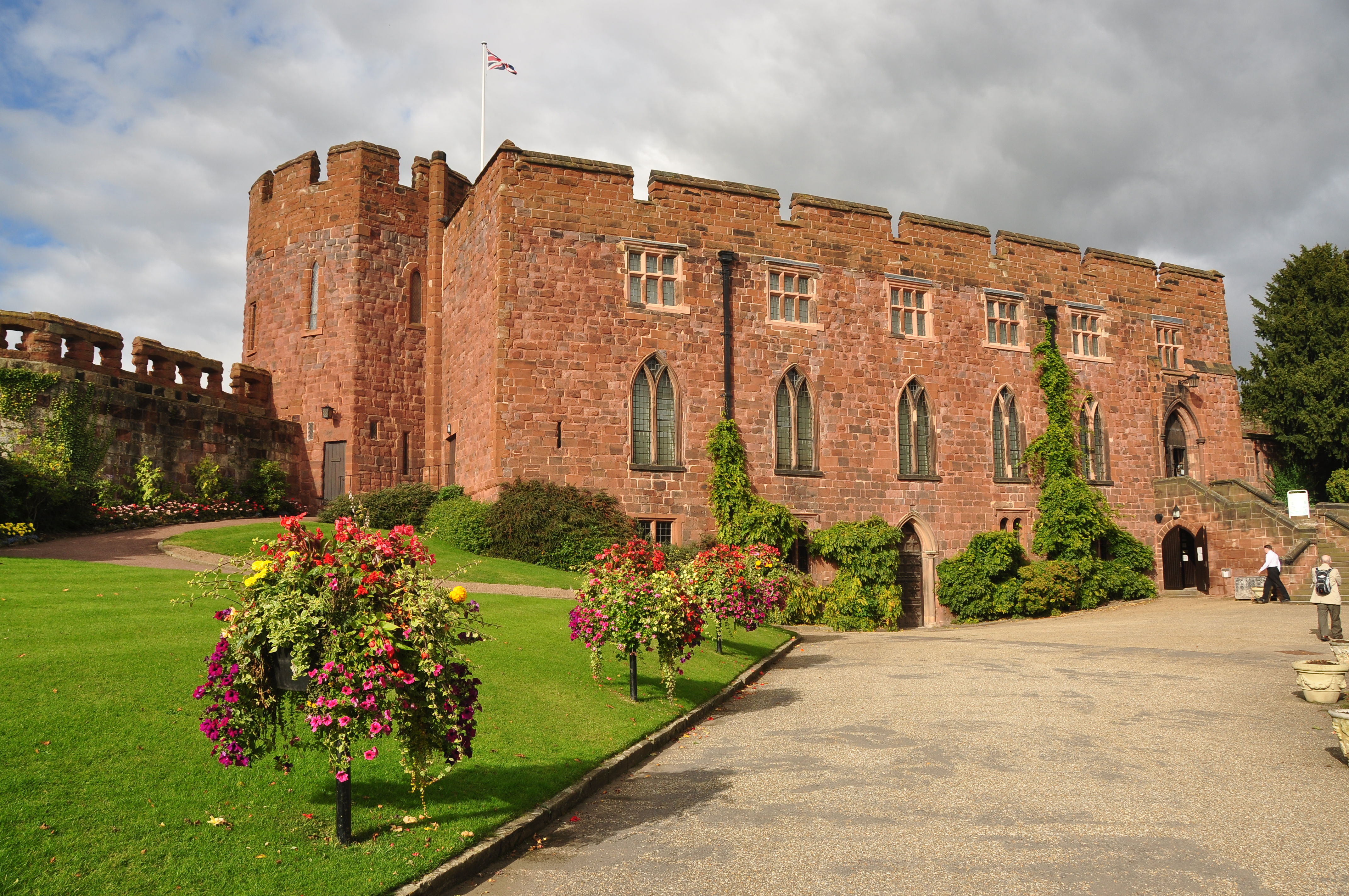 Shrewsbury Castle